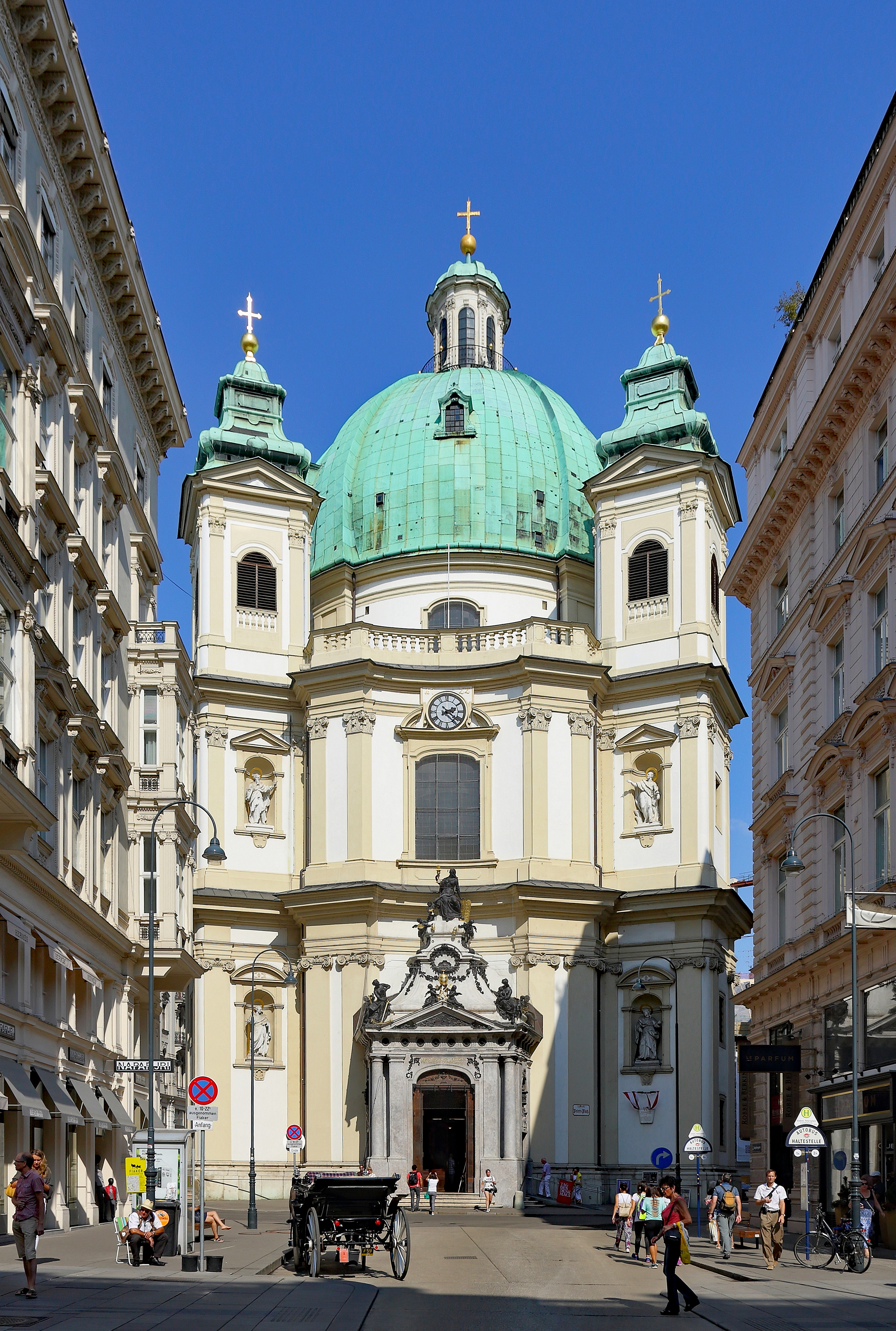 Peterskirche (St. Peter's Church) is a baroque Roman Catholic parish church in Vienna, Austria.